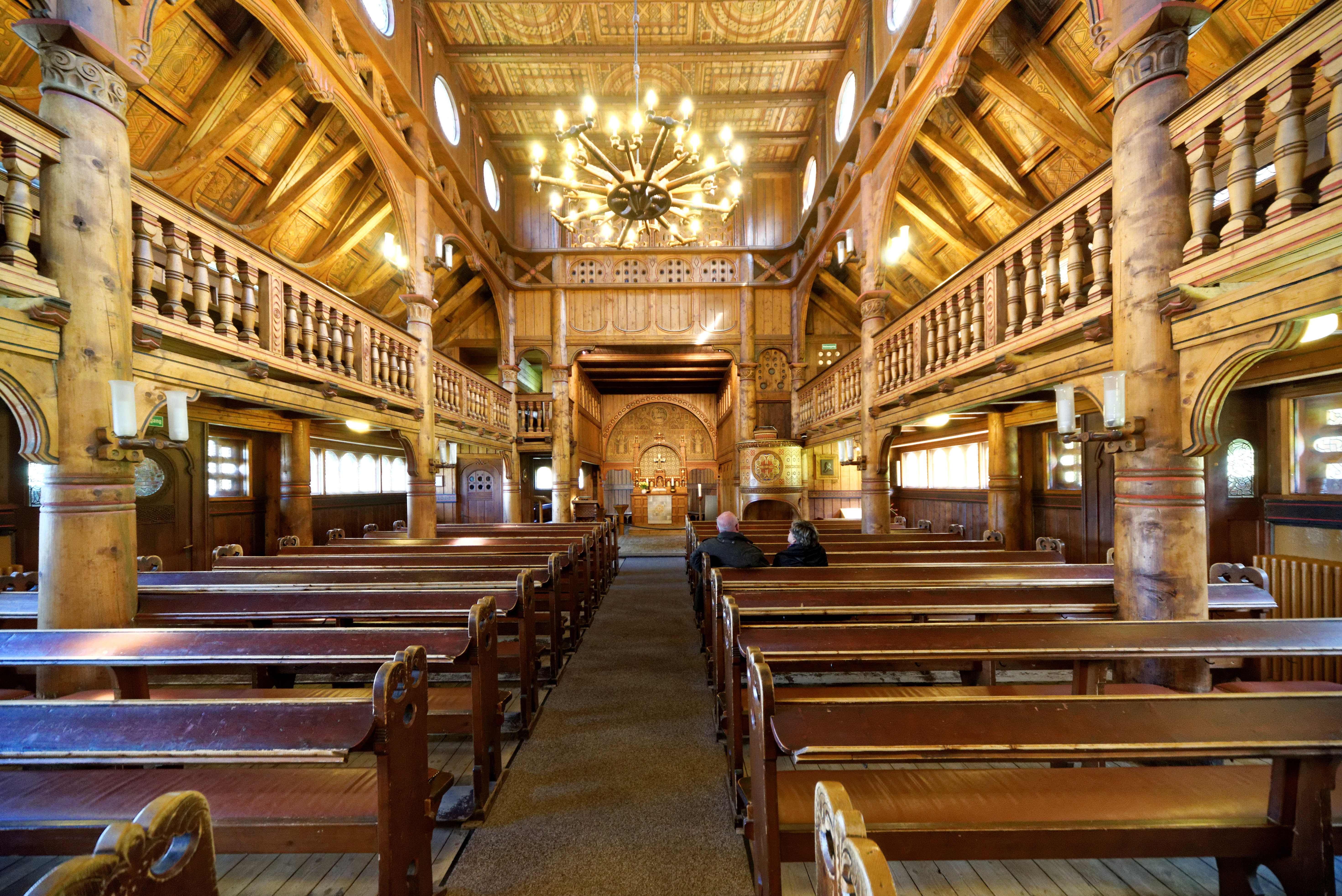 Uniquely, the Gustaf-Adolf-Church in Hahnenklee.